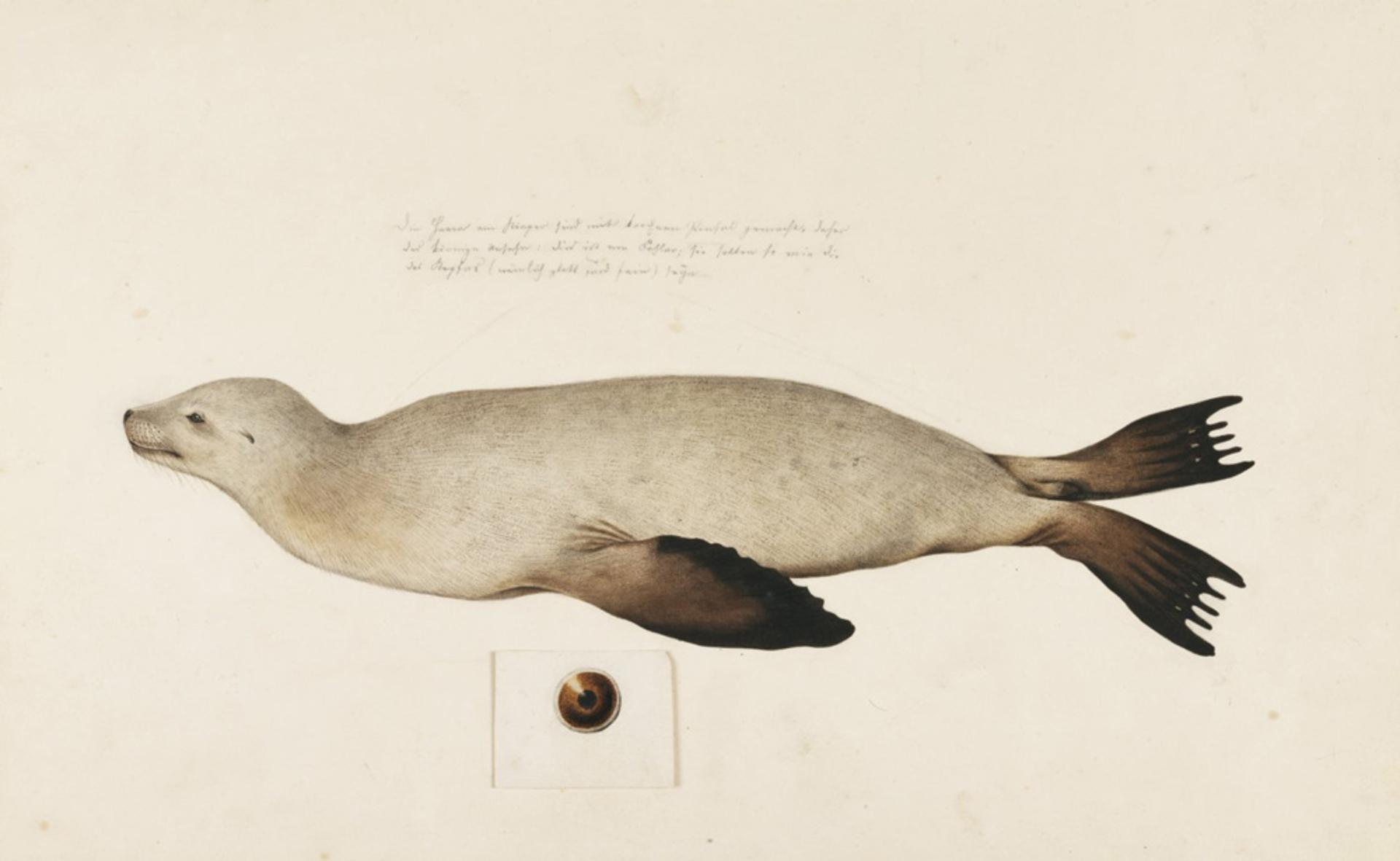 Zalophus californianus japonicus